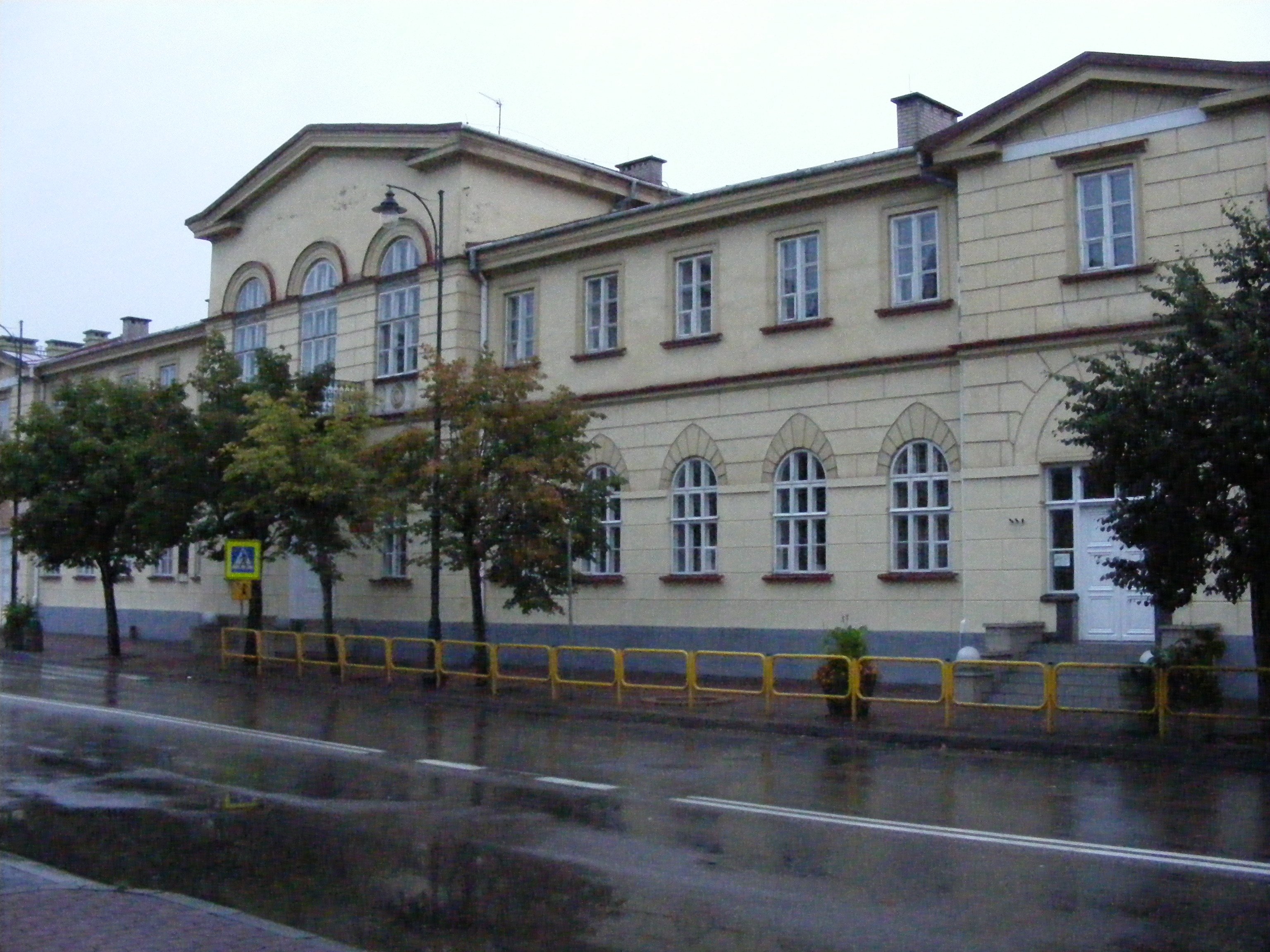 Liceum Ogólnokształcące no. 1 in Suwałki in rain.